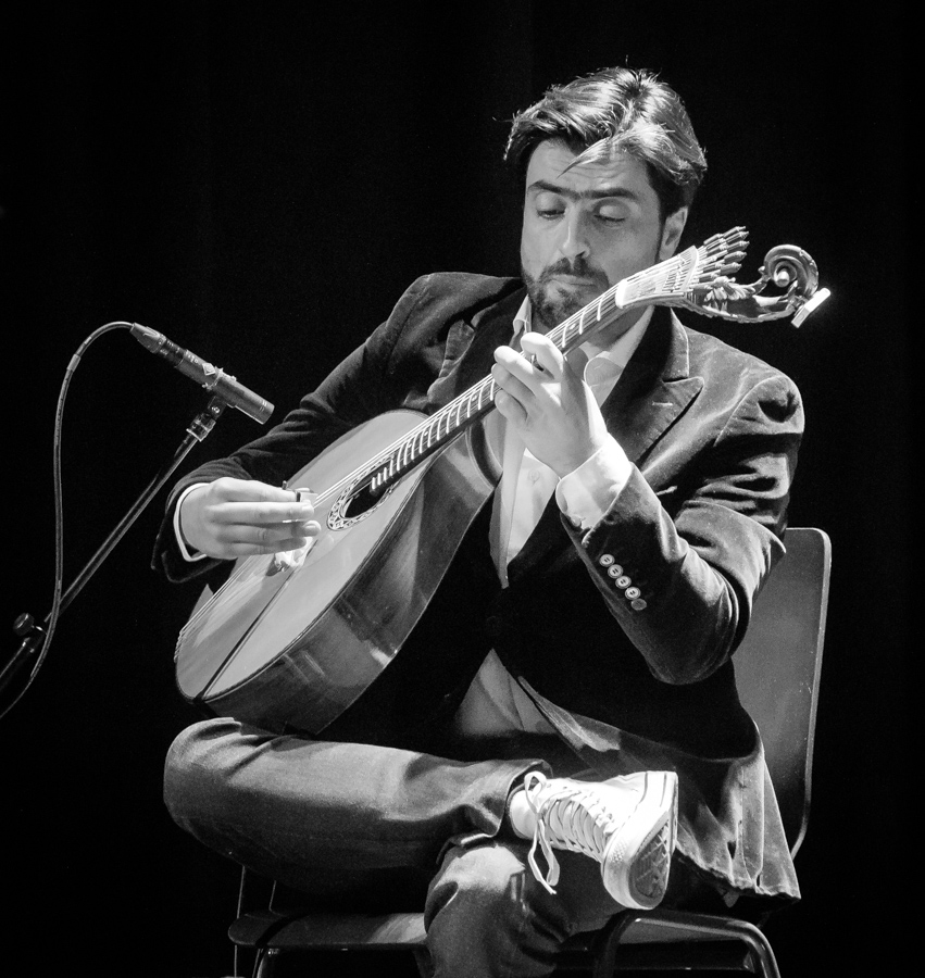 Luís Guerreiro with Katia Guerreiro at Cosmopolite. The concert took place on 26. January 2018 in Oslo. Lineup: Katia Guerreiro (vocal), Luís Guerreiro (Portuguese guitar), João Veiga (guitar) and Fernando Júdice (double bass).